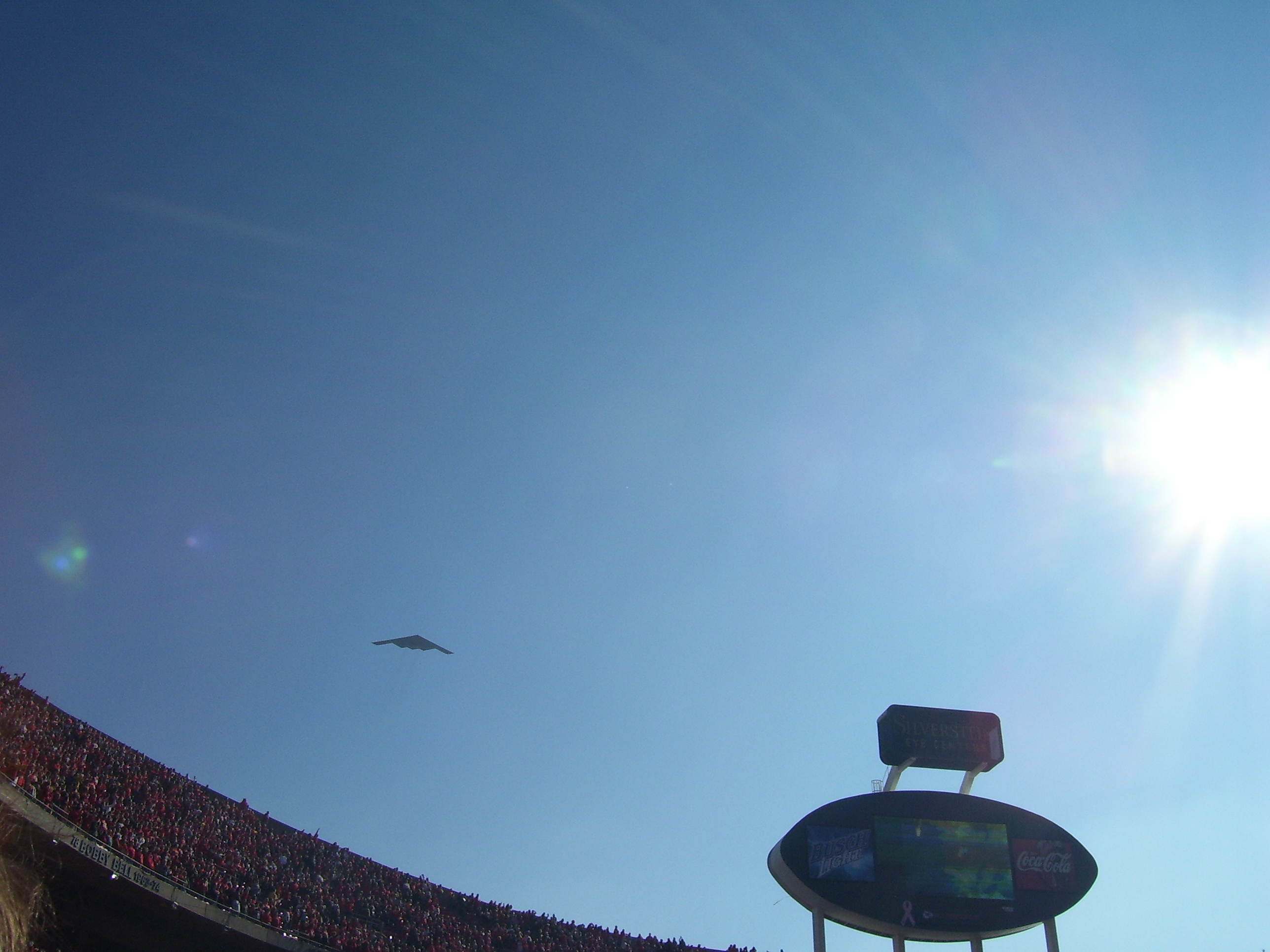 B-2 Spirit Stealth bomber flyover at Arrowhead Stadium in Kansas City, MO prior to the Raiders-Chiefs game. The aircraft is from nearby Whiteman Air Force Base in Knob Noster, MO.